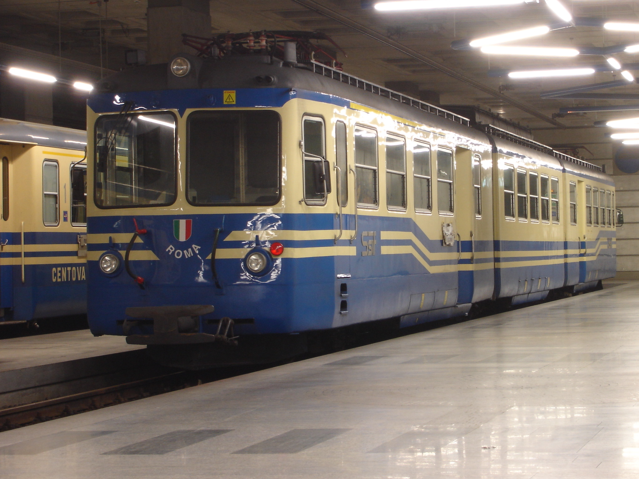 ABe 8/8 21 "Roma", owned by SSIF, at Locarno underground station.